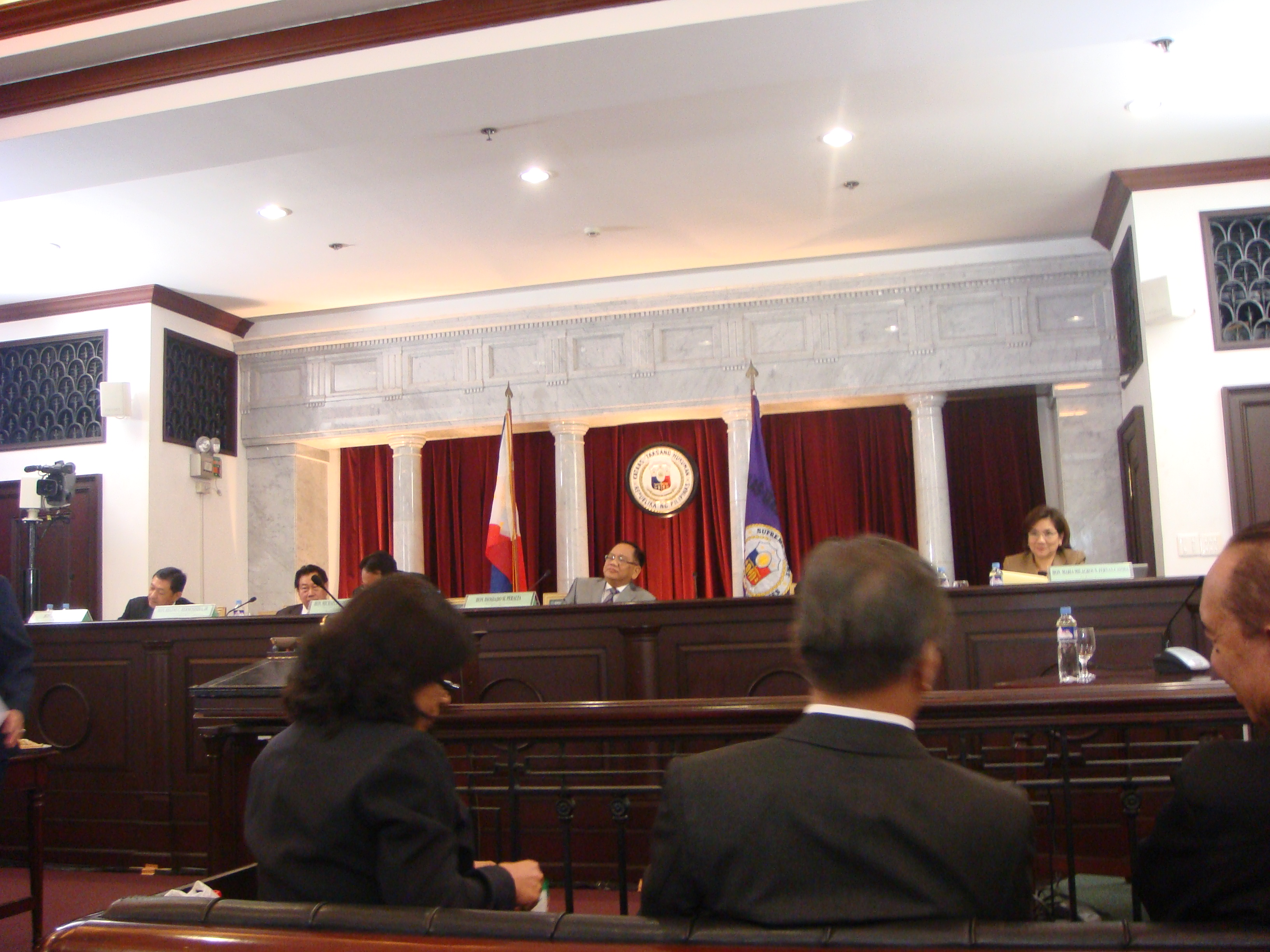 Judicial and Bar Council members in the Chief Justice Panel Interview